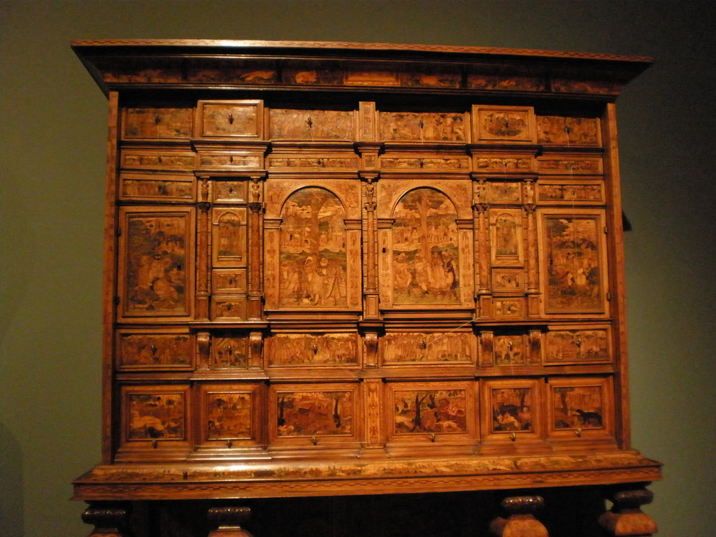 Cabinet on stand German, about 1580 Pine carcase, and marquetry on coloured woods The everyday scenes on the main body of the cabinet are probably based on illustrations by the prolific engraver and painter Jost Amman (1539-1591). The base was probably made up with the original doors, some time before 1850. They were most likely derived from marquetry designs of Lorenz Stoer (active 1555-1620), published in 1567 and similar to doors of a cabinet, now in the Brooklyn Museum, New York. 4250-1858. Wikipedia Loves Art at the Victoria and Albert Museum This photo of item # 4250-1858 at the Victoria and Albert Museum was contributed under the team name "va_va_val" as part of the Wikipedia Loves Art project in February 2009. Victoria and Albert Museum The original photograph on Flickr was taken by DJ - Architect—please add a comment to the original Flickr page whenever a use has been made on Wikipedia or another project. Project galleries on Flickr: this institution, this team